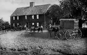 The Dickinson-Pillsbury House in horse and buggy days.